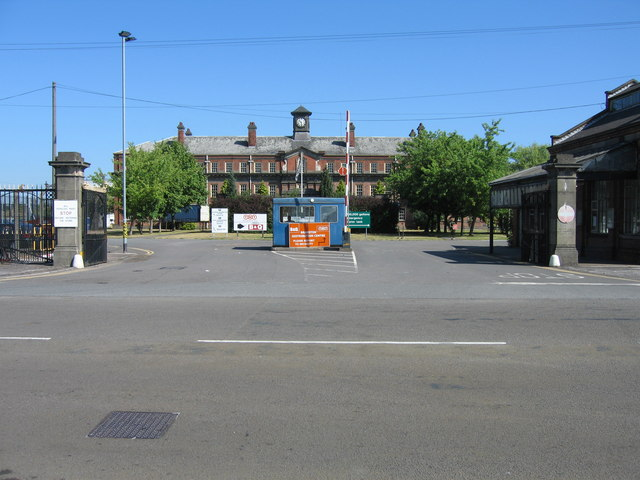 Branston Depot - the original home of Branston Pickle. Branston Depot is situated on Burton Road, Branston, Burton upon Trent, Staffordshire. It was built in 1915 as the National Machine Gun Factory and was then taken over by Crosse and Blackwell in the 1920s, with the village giving its name to the world famous pickle that was first produced there. In the 1930s it became a silk factory and was taken over by the Army in the Second World War as their Central Ordnance Depot. They remained there until the 1960s, when it then became Home Office stores, supplying prisons and storing the former AFS 'Green Goddess' fire engines. The 'Green Goddesses', which were used by the military during national firefighters' strikes, moved to a store at nearby Marchington at the end of the 1980s. In 2004, part of the Depot was leased to B&Q and is operated as a distribution depot for them by the logistics firm TNT. A massive fire at the beginning of 2006, destroyed millions of pounds worth of fitted kitchens stock and the warehouse centred on SK23552162.